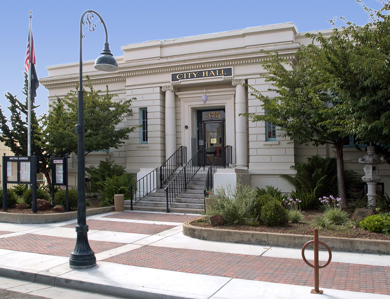 Hollister Carnegie Library, 375 Fifth Street in Hollister, California